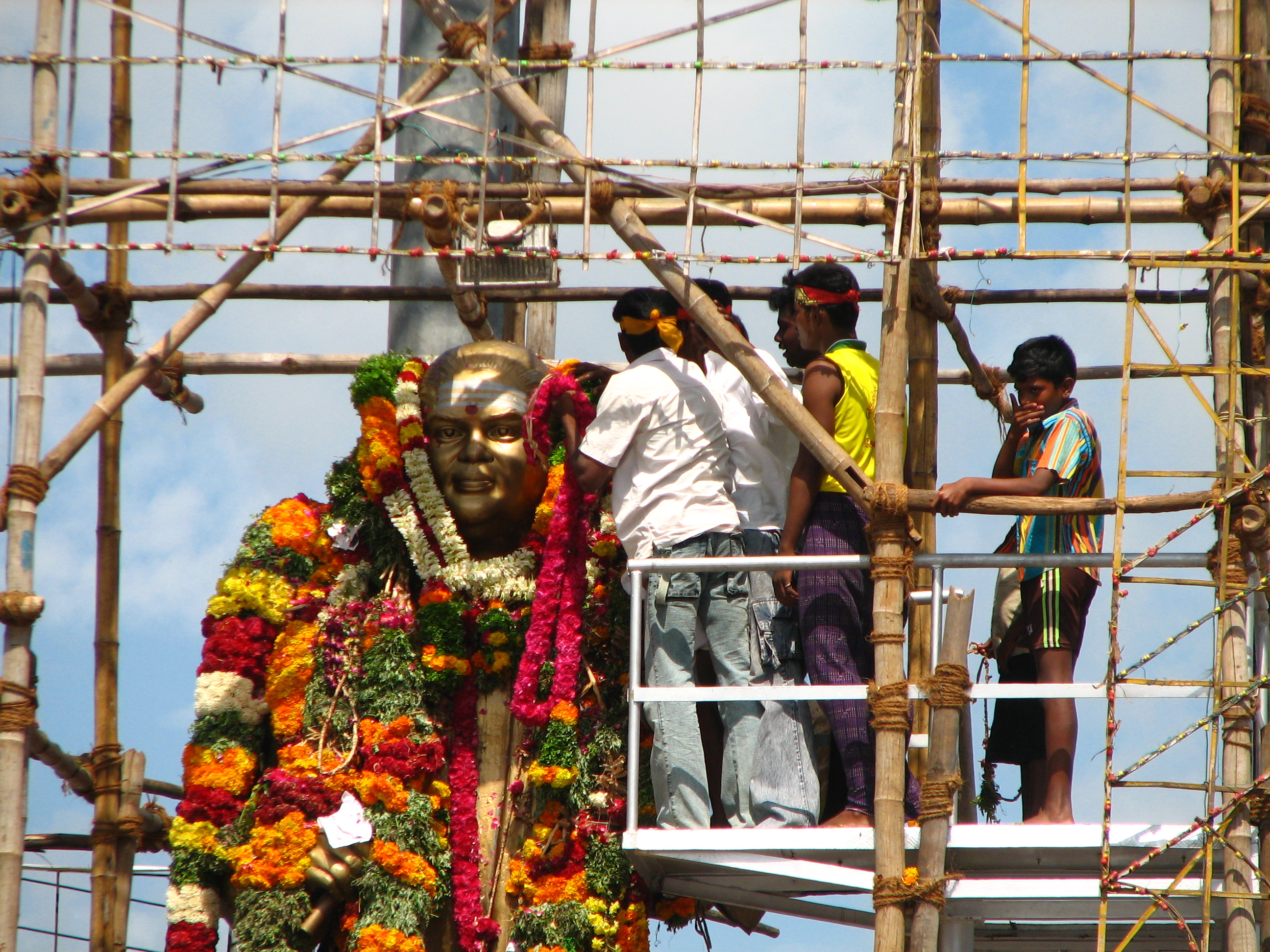 A close-up of an excited group of youth members laying yet another flower garland around the neck of U. Muthuramalingam Thevar's statue's. So totally at random, I got suggested to check out festivities going on that day in Madurai and found myself in the middle of a boisterous and excited, but very peaceful political rally and celebration. Oct 30 marked Thevar jayanthi, a celebration of the birthday of U. Muthuramalingam Thevar, a renowned and revered political leader and activist of the '30s to '50s. Members of various groups of the All-India Forward Bloc and several current and senior political leaders of various parties, including Tamilnad Chief Minister M. Karunanidhi (who I didn't see) marched, rallied and gathered to pay homage to him, focused on his statue. Groups climbed the stairs to lay large flower garlands around the statue's neck amidst great cheering and revelry. If you want to see India at its most celebratory (and often volatile, although celebrations this day were mostly peaceful), watching its political rallies are the way to do it. Everyone there was so thrilled to have me cheering with them (despite me not having a clue what it was about except knowing it was political due to the profusion of flags like a field of poppies) and taking photos, usually demanding (via even more loud cheering) pictures, often pulling me right from one group posing to theirs!